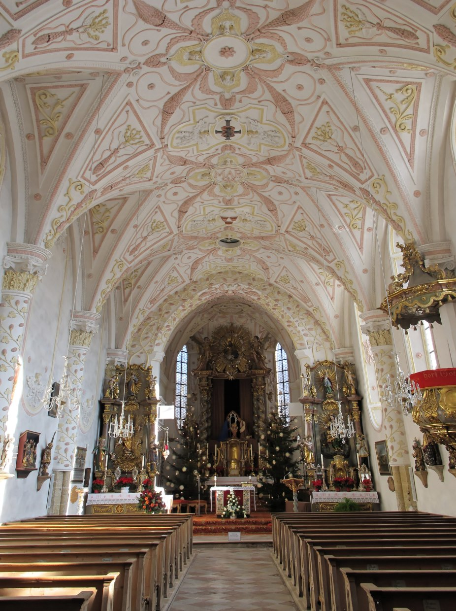 kath. church St. Laurentius, Inside